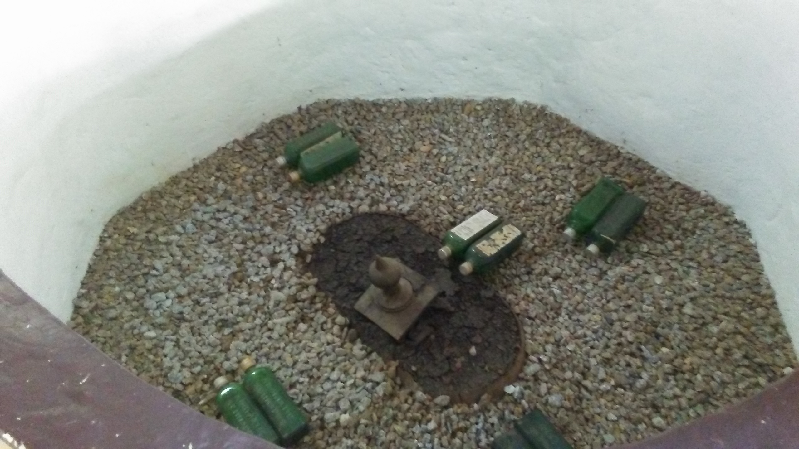 The legendary site of the foundation of the Asante empire